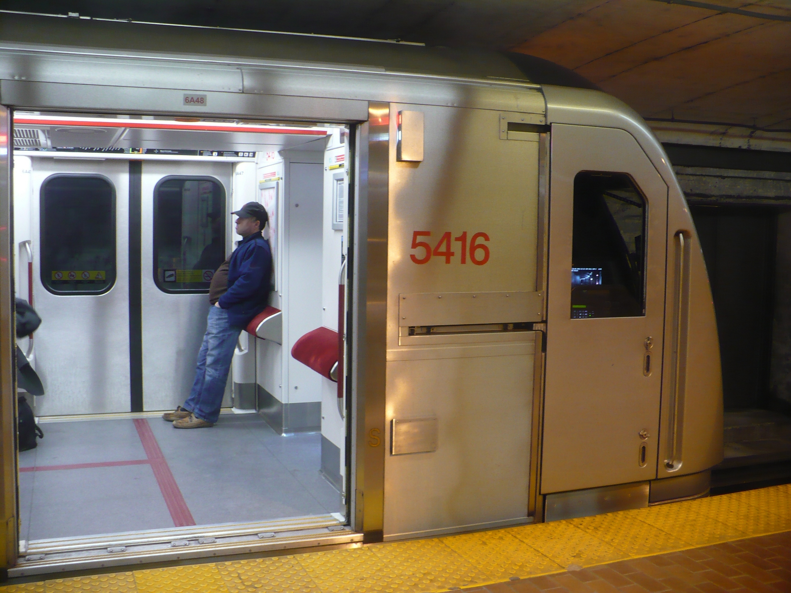 Toronto Rocket subway train at Union subway station in Toronto